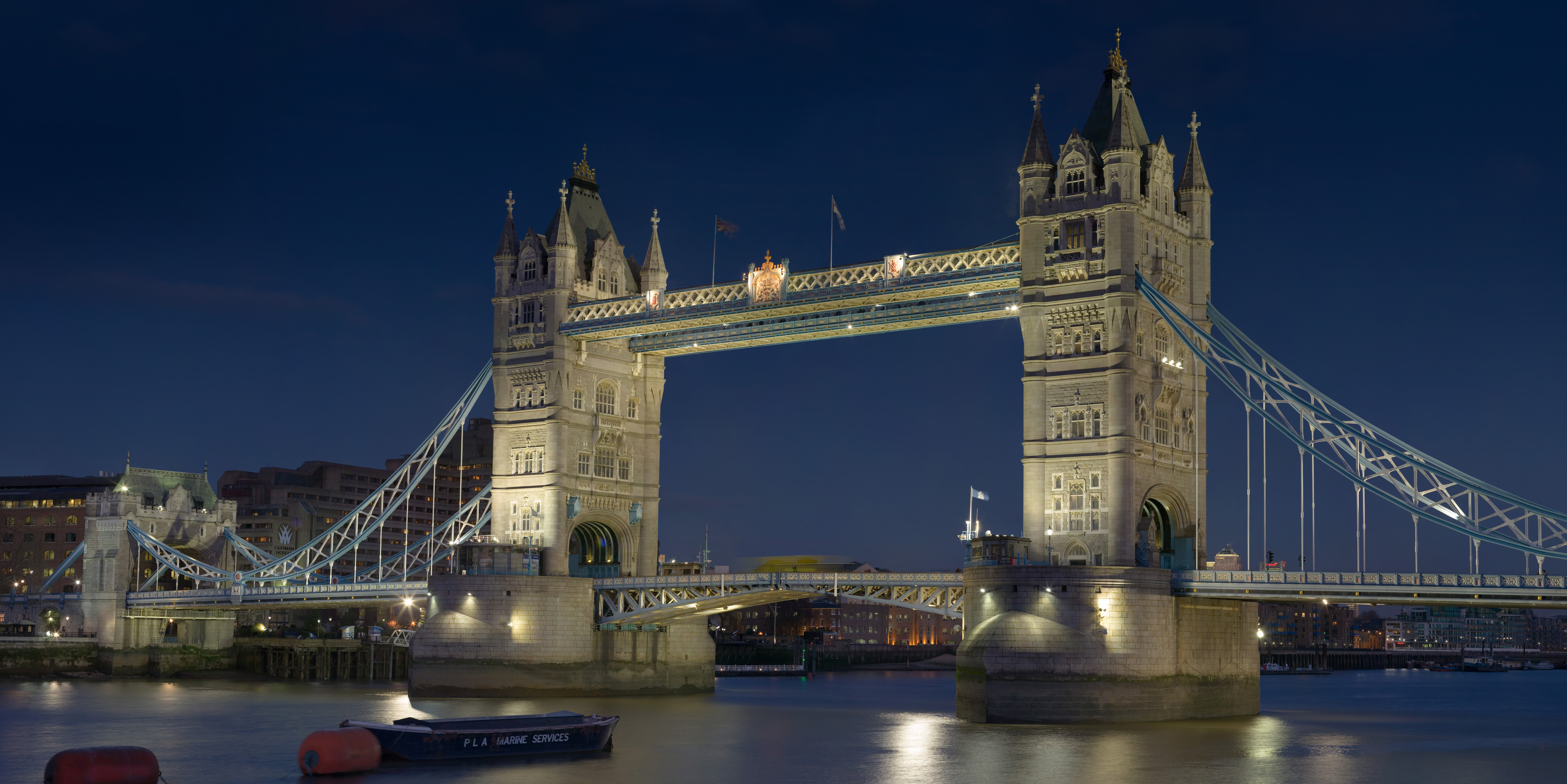 An extremely high resolution image of Tower Bridge in London. This image is a mosaic of 53 12.8 megapixel segments stitched with PTGui. They were taken with a Canon 5D and 70-200mm f/2.8L at ~185mm, f14 and 3.2 seconds per exposure.